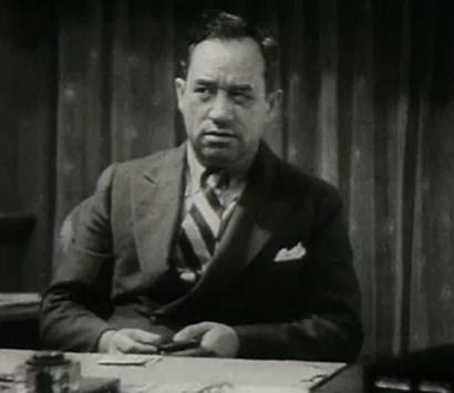 Stanley Fields in Little Caesar (1931) - trailer (cropped screenshot)